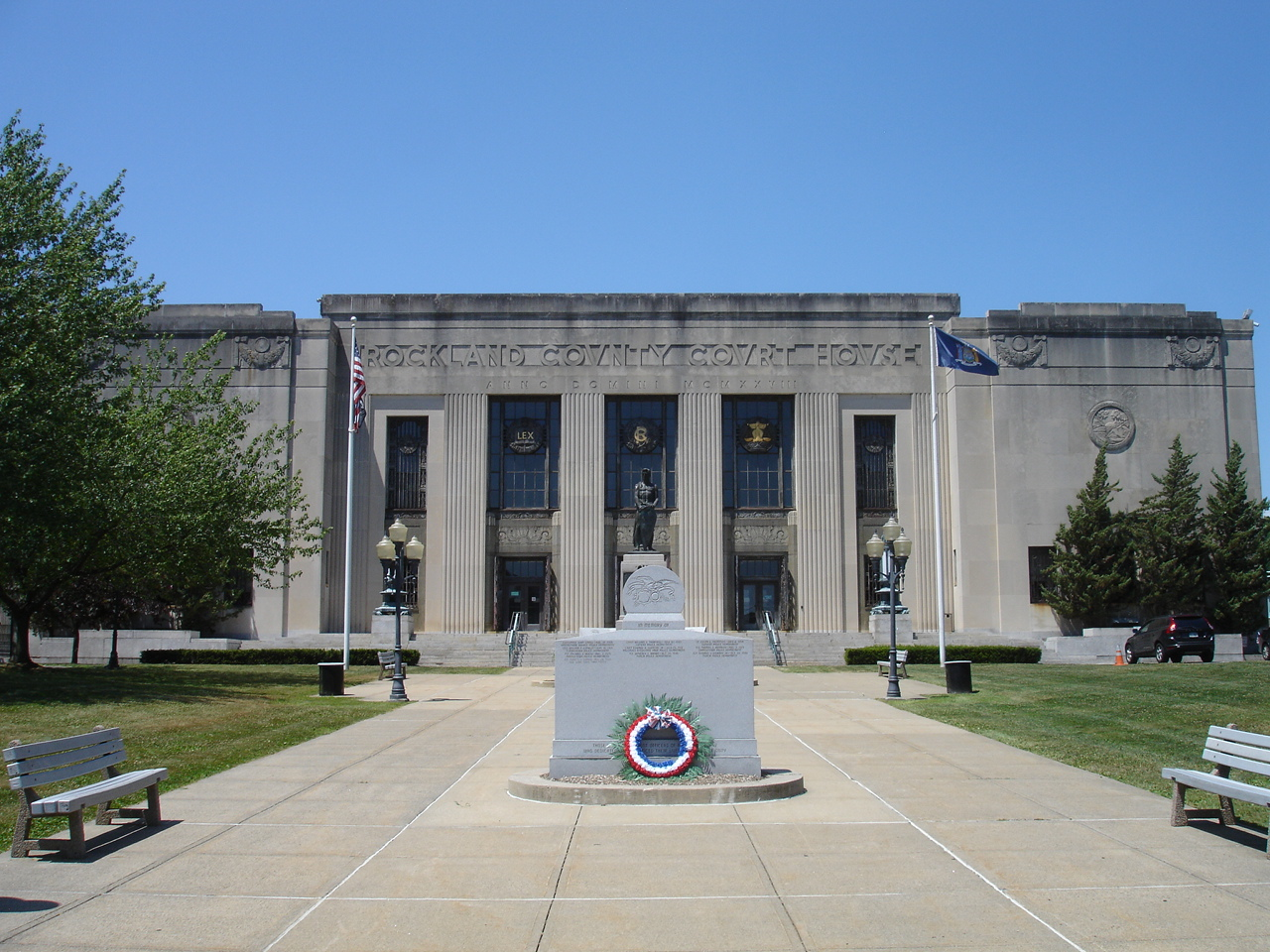 The Rockland County Courthouse in New City, New York, a building listed on the National Register of Historic Places.